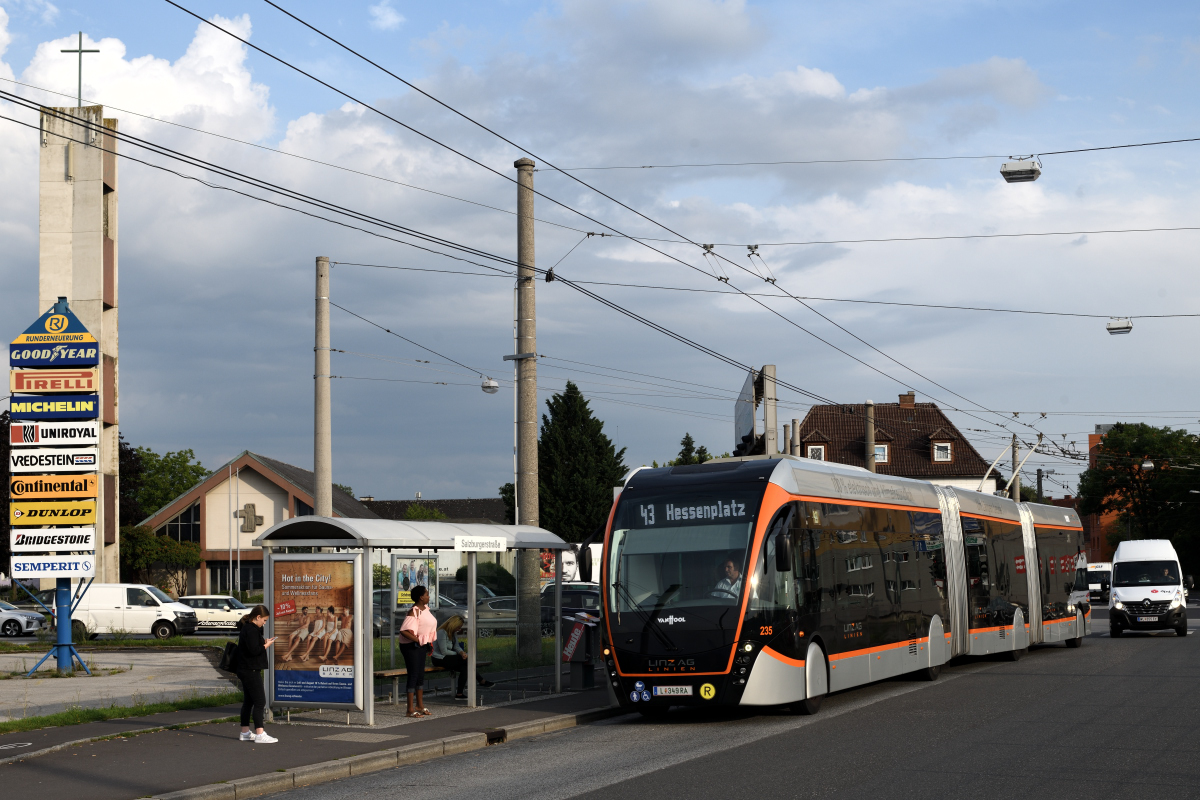 Van Hool Exqui.City 24 235 in Linz